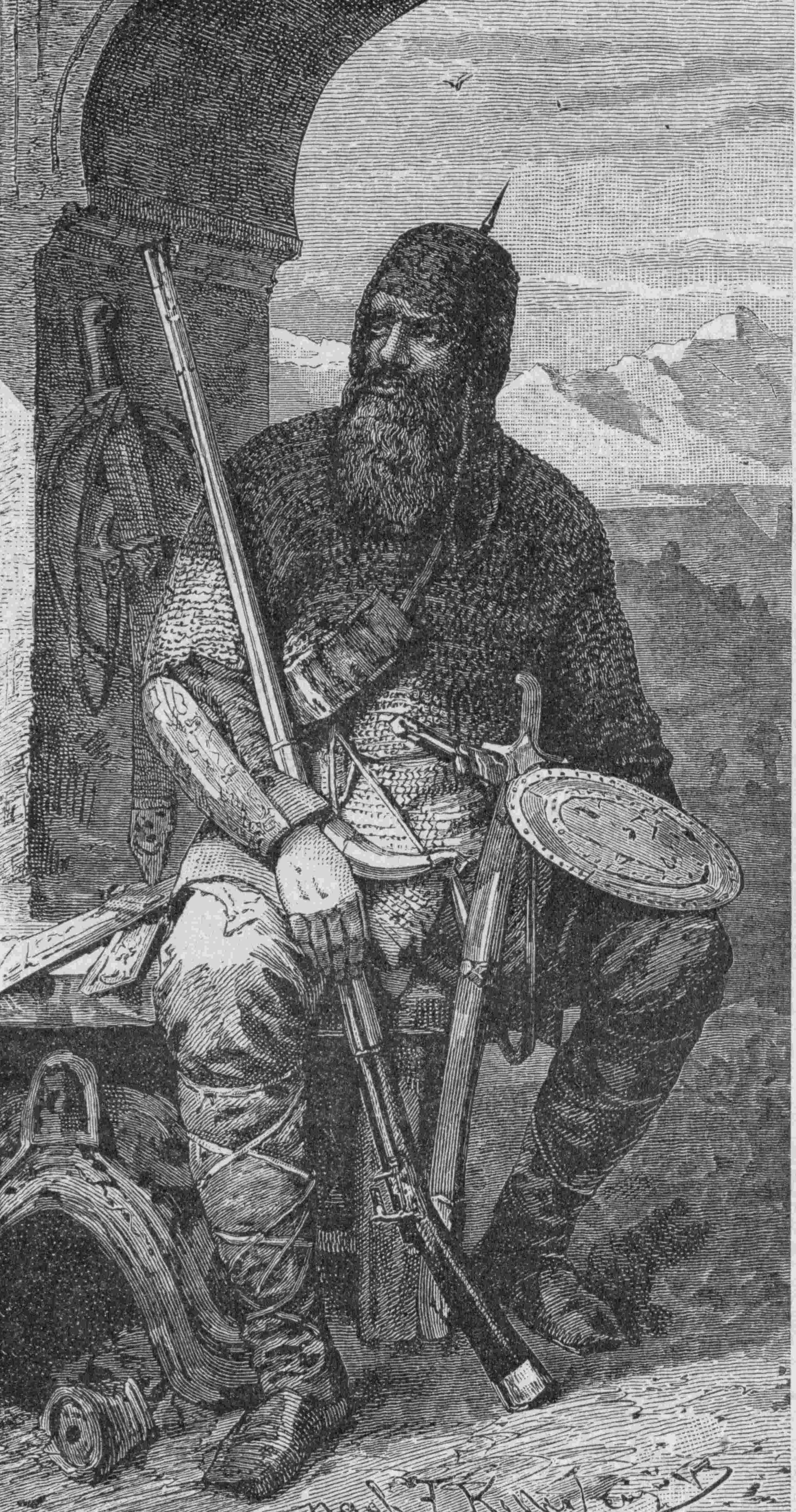 Chechen warrior in chain mail